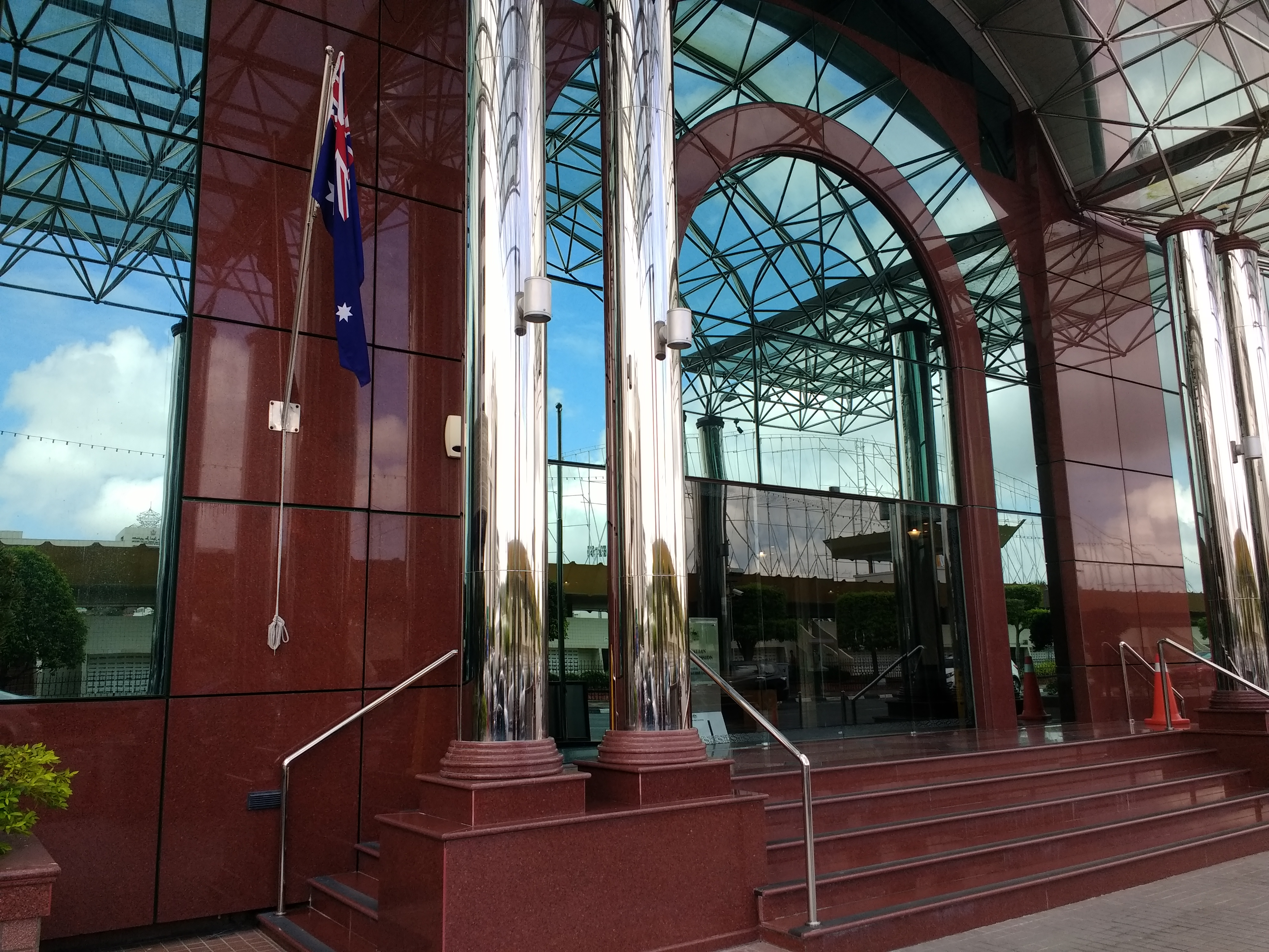 Outside of the Australian High Commission in Bandar Seri Begawan, Brunei. The High Commission is located on level 6, Dar Takaful IBB Utama.